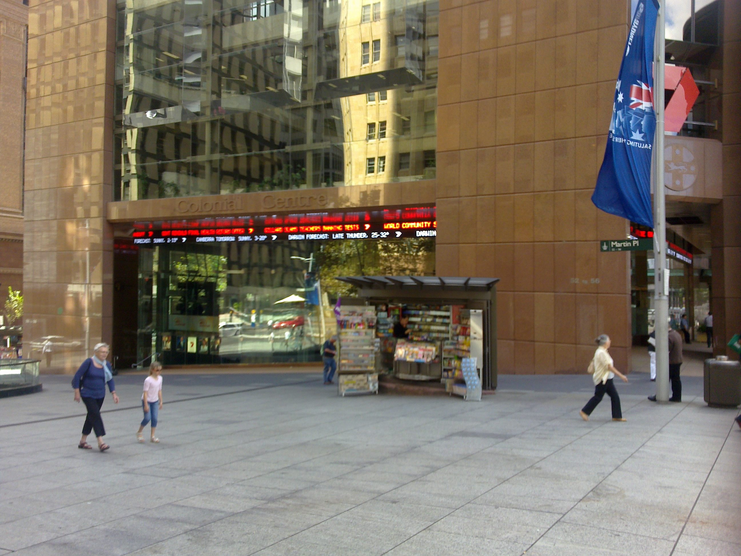 Channel Seven Studios at martin place